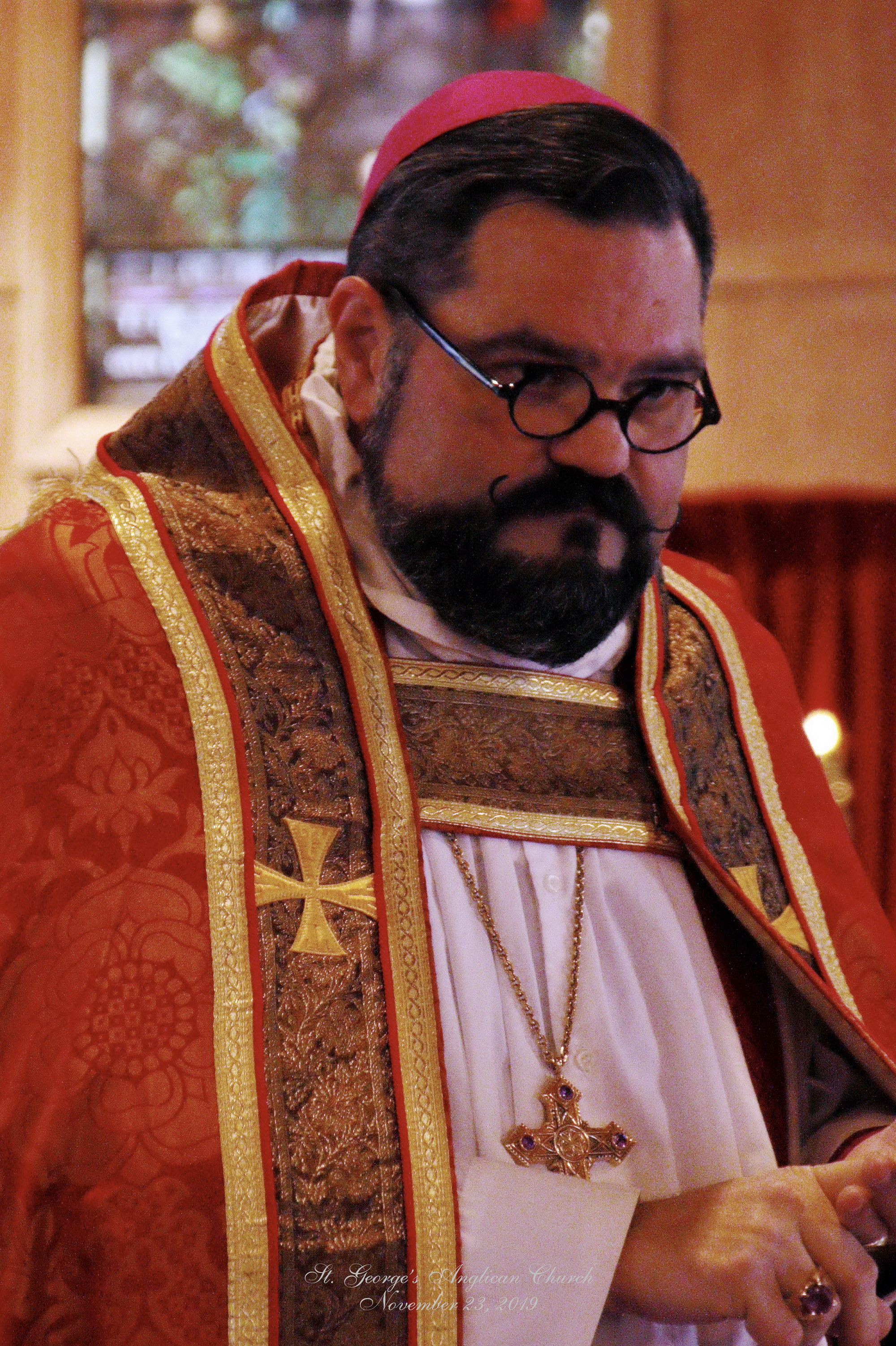 Preaching at St. George's Birtle in November 2019